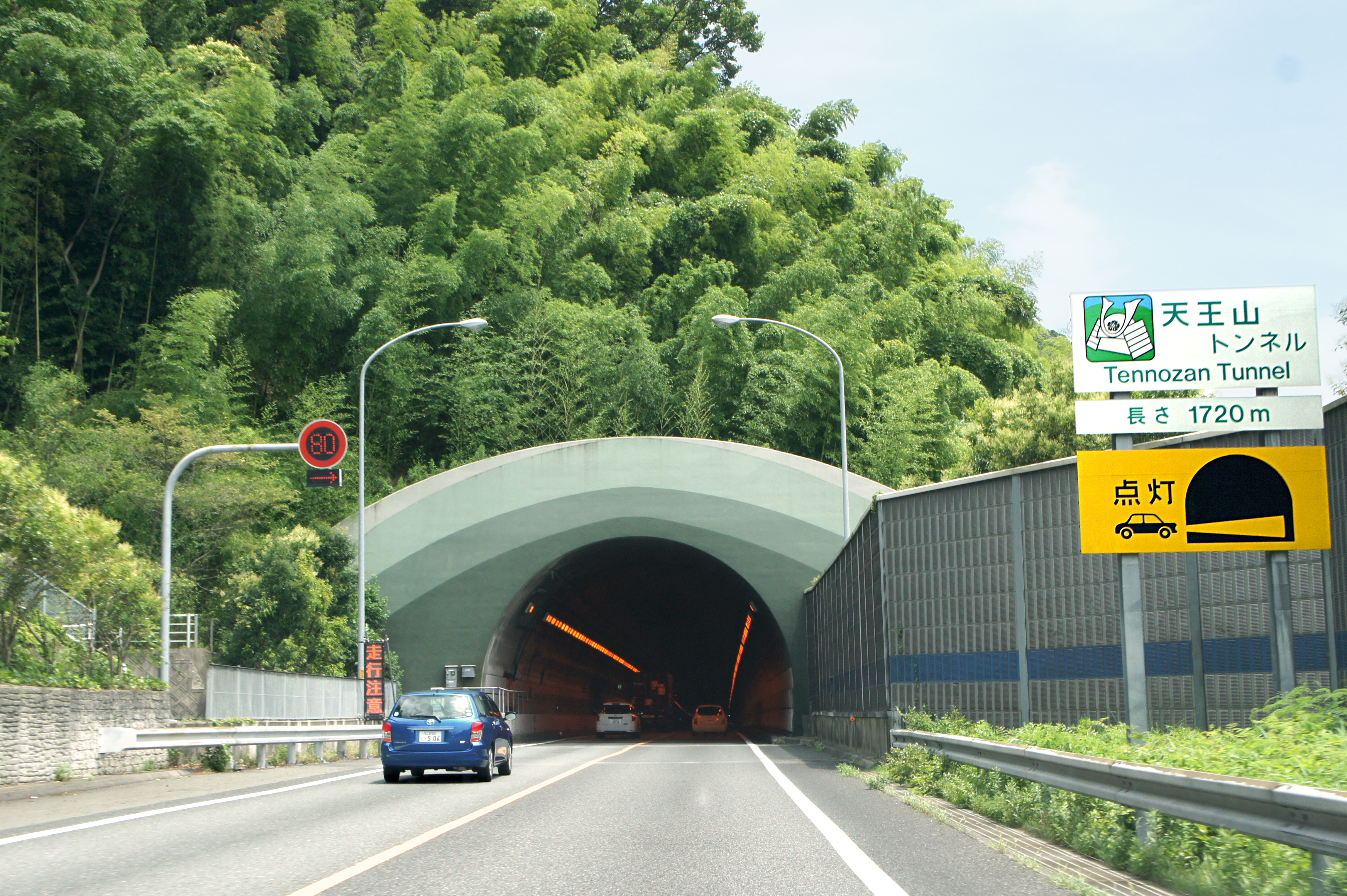 Portal to Tennozan Tunnel, Osaka side